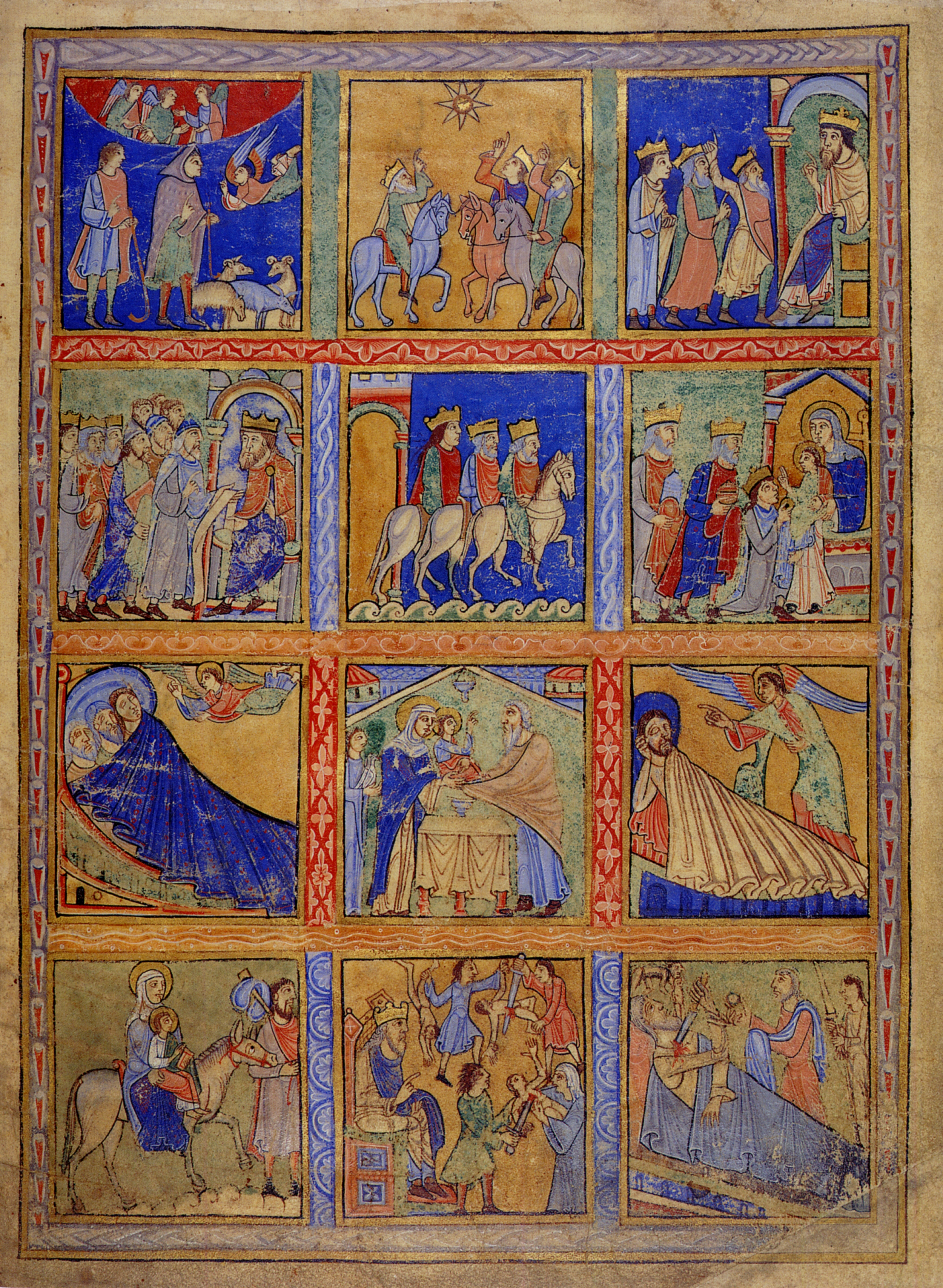 Twelve scenes from the Christmas story, BL Additional MS 37472, fol. 1r